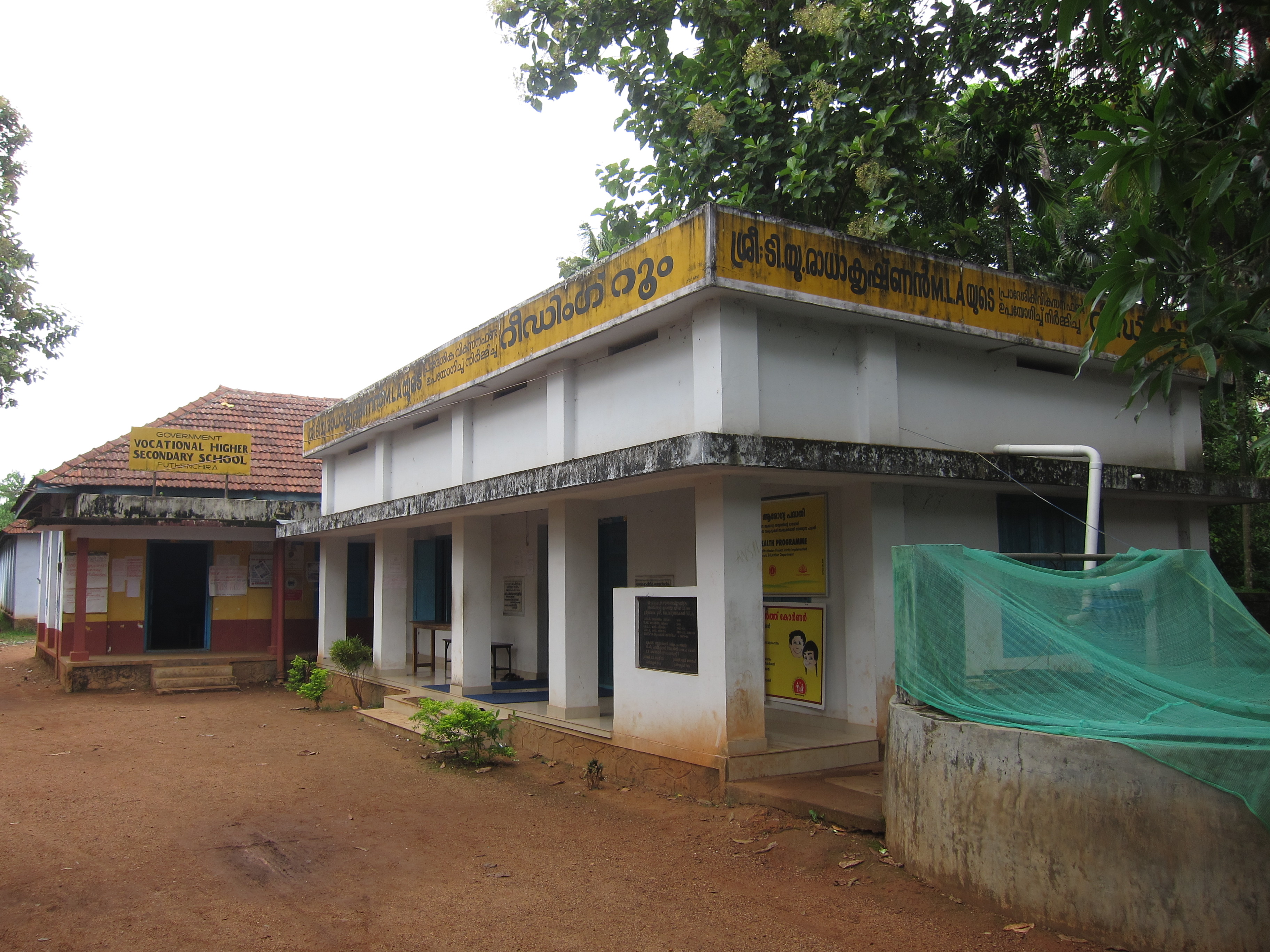 Puthenchira Govt. V.H.S.School, Mala Educational Sub-District, Irinjalakuda Educational District, Thrissur District